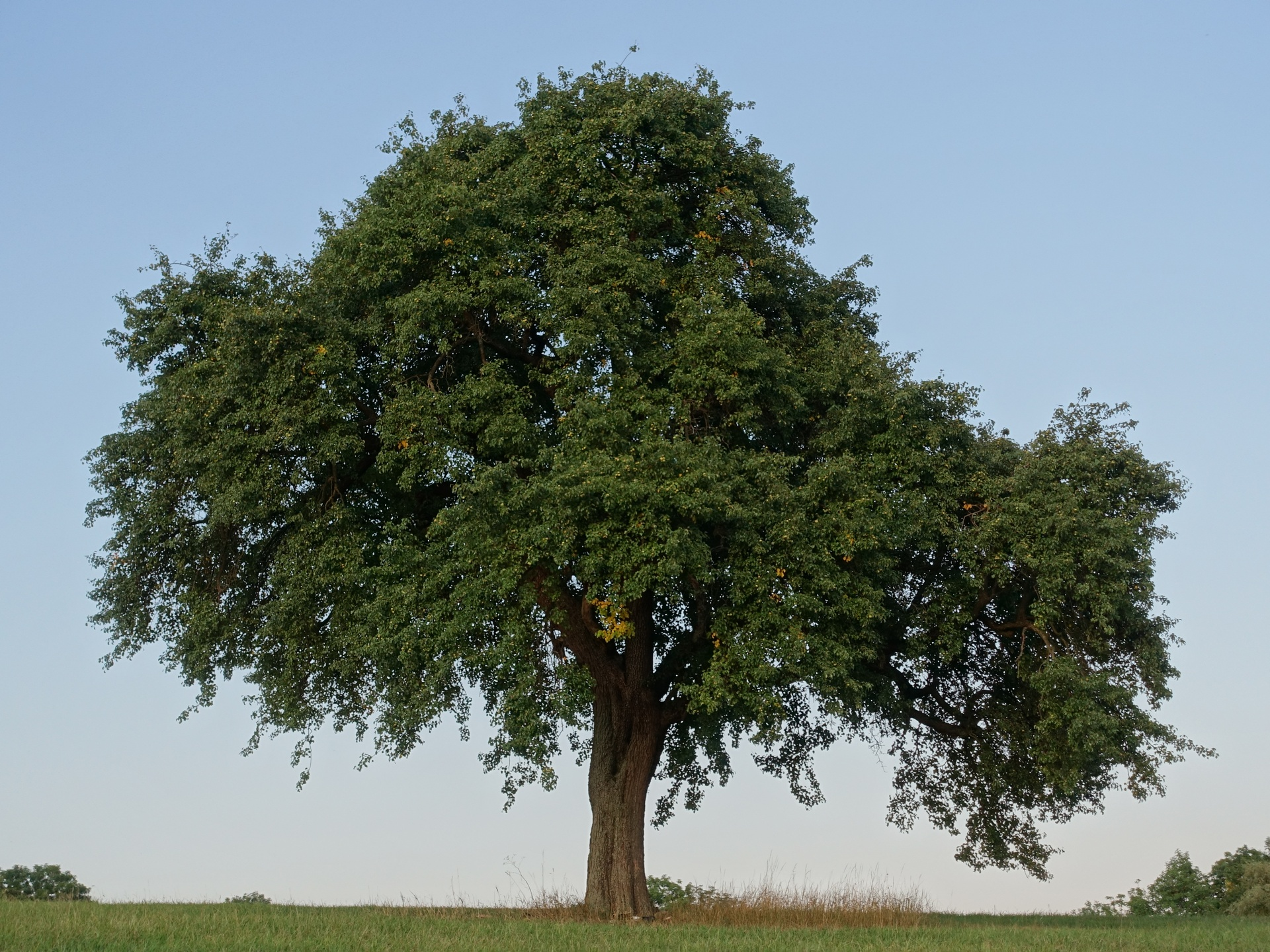 Pyrus pyraster near Wendelhöfen, bayreuth